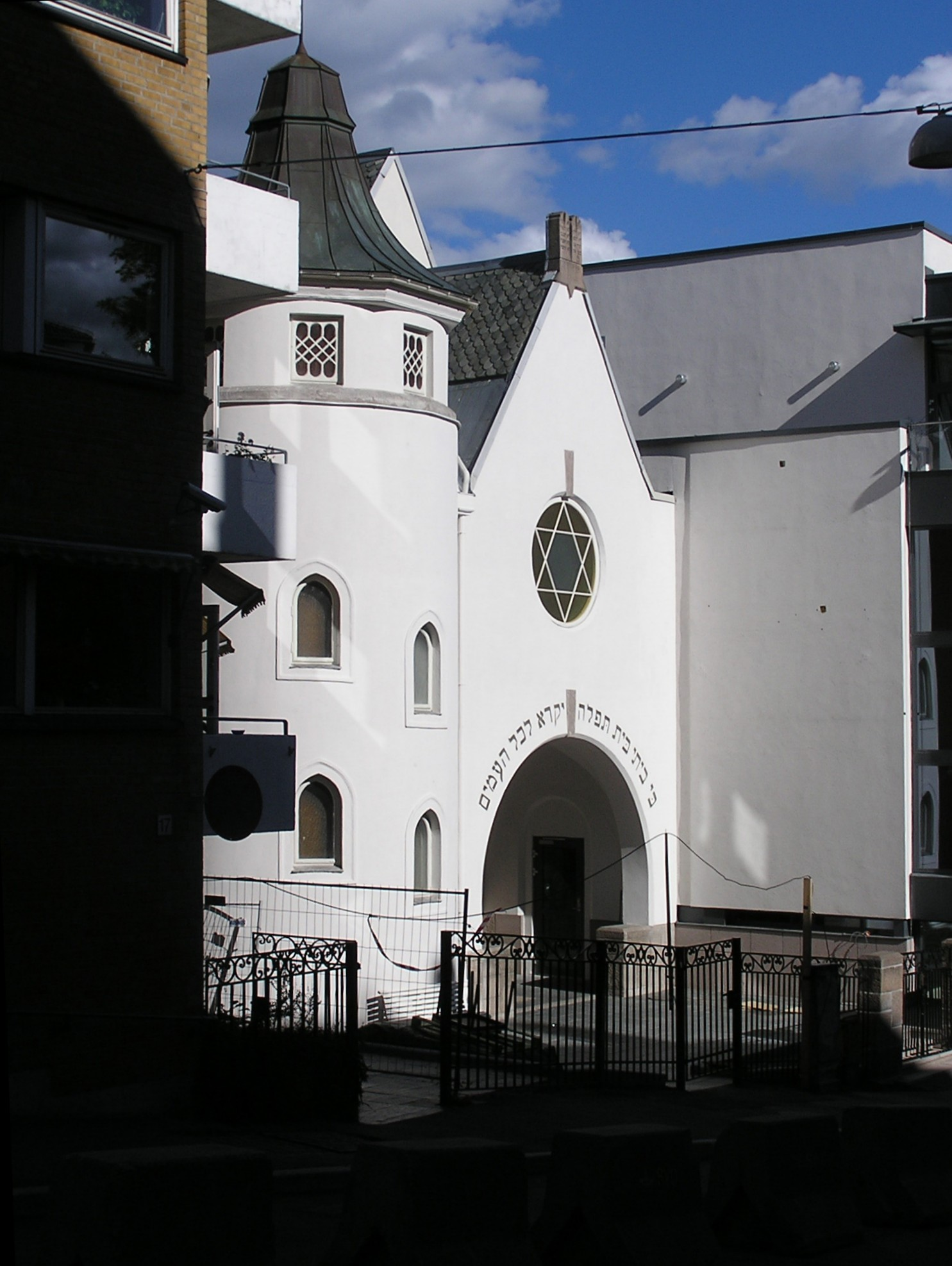 The Synagogue in Bergstien 13, Oslo, Norway